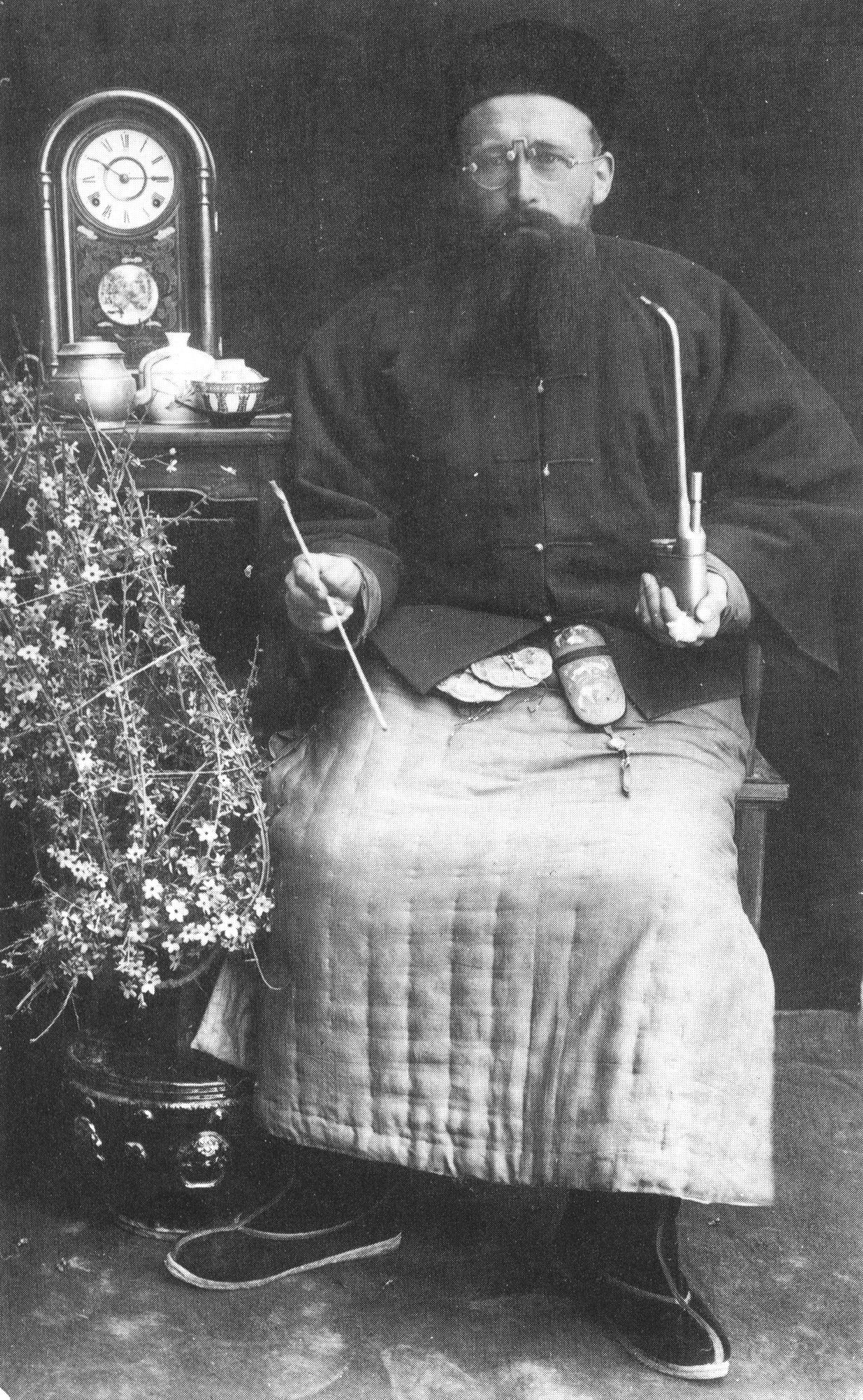 Louis Schram at the Monguor in 1909.